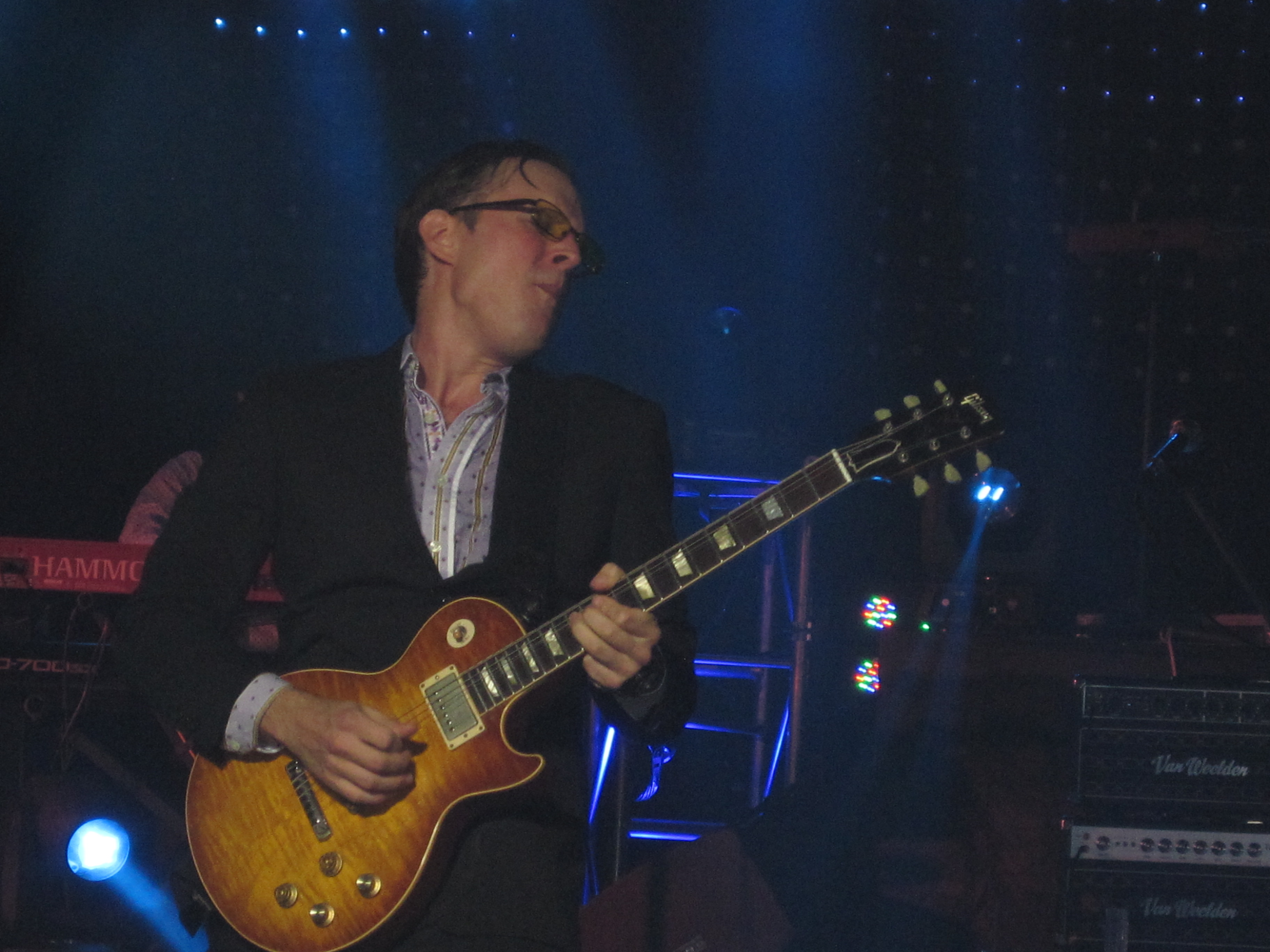 Joe Bonamassa playing live at the O2 Apollo, Manchester, UK. October 2010.